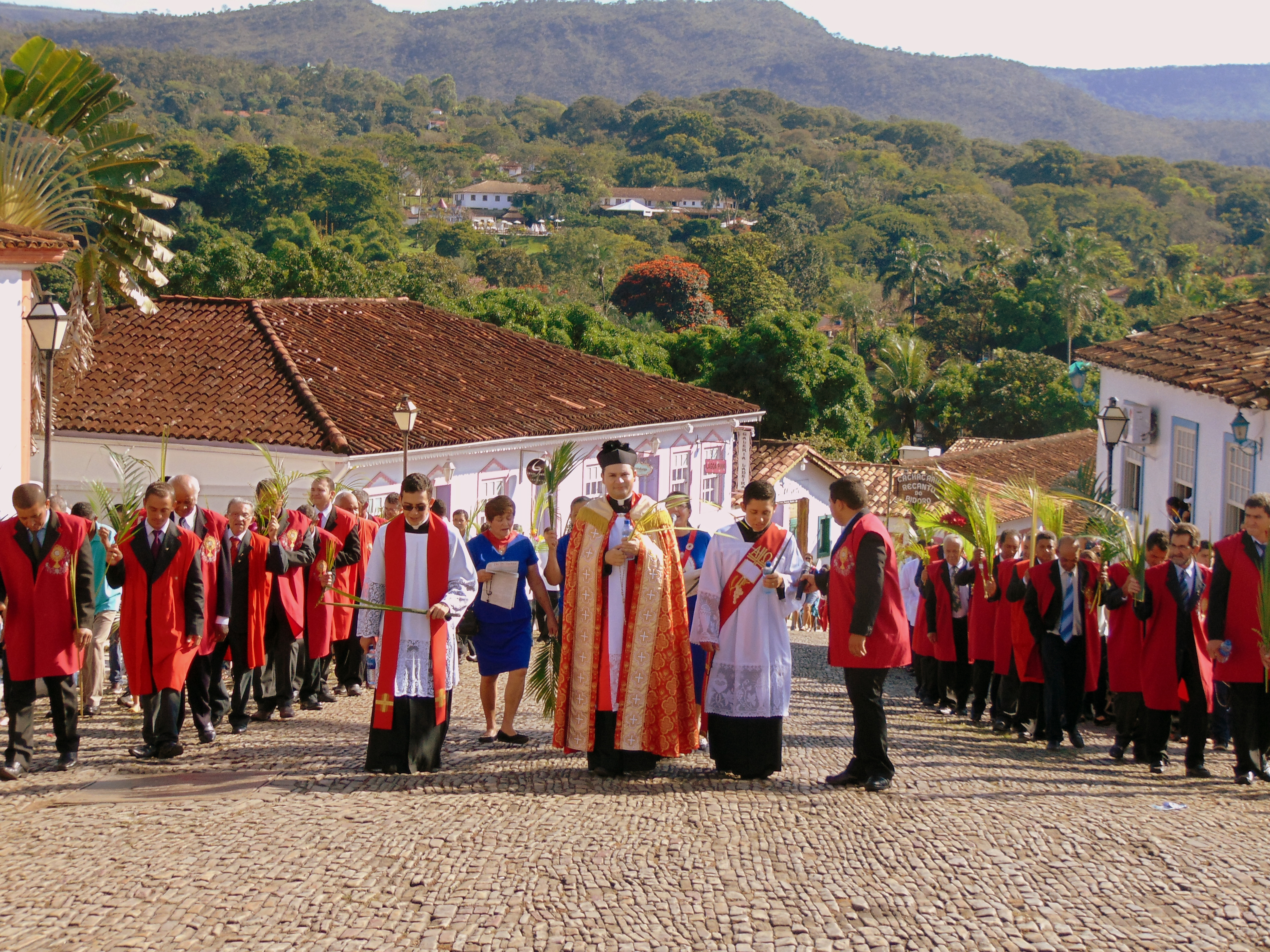 Procissão de Palmas pelo Centro Histórico de Pirenópolis.